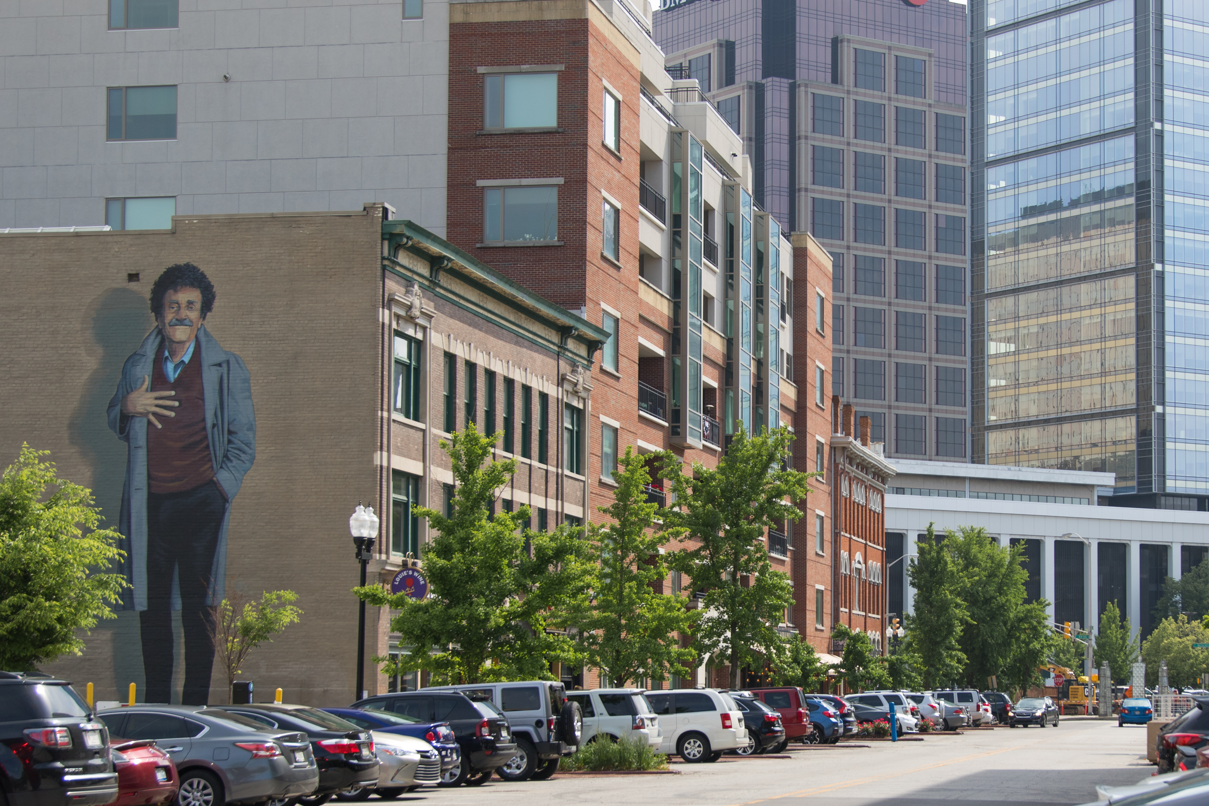 This is a picture of Massachusetts Avenue, Indianapolis, IN